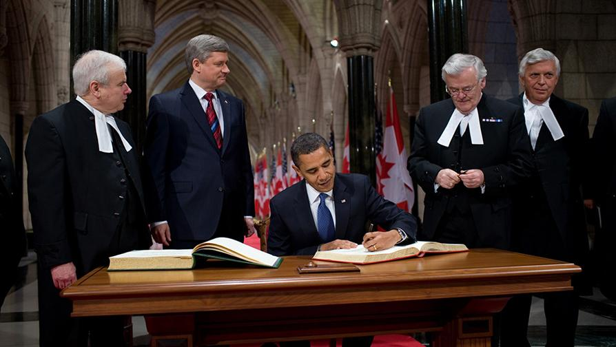 President Barack Obama signs the guest book in the Centre Block, Parliament Hill, in Ottawa, Canada. Canadian Prime Minister Stephen Harper is standing to Obama's right.